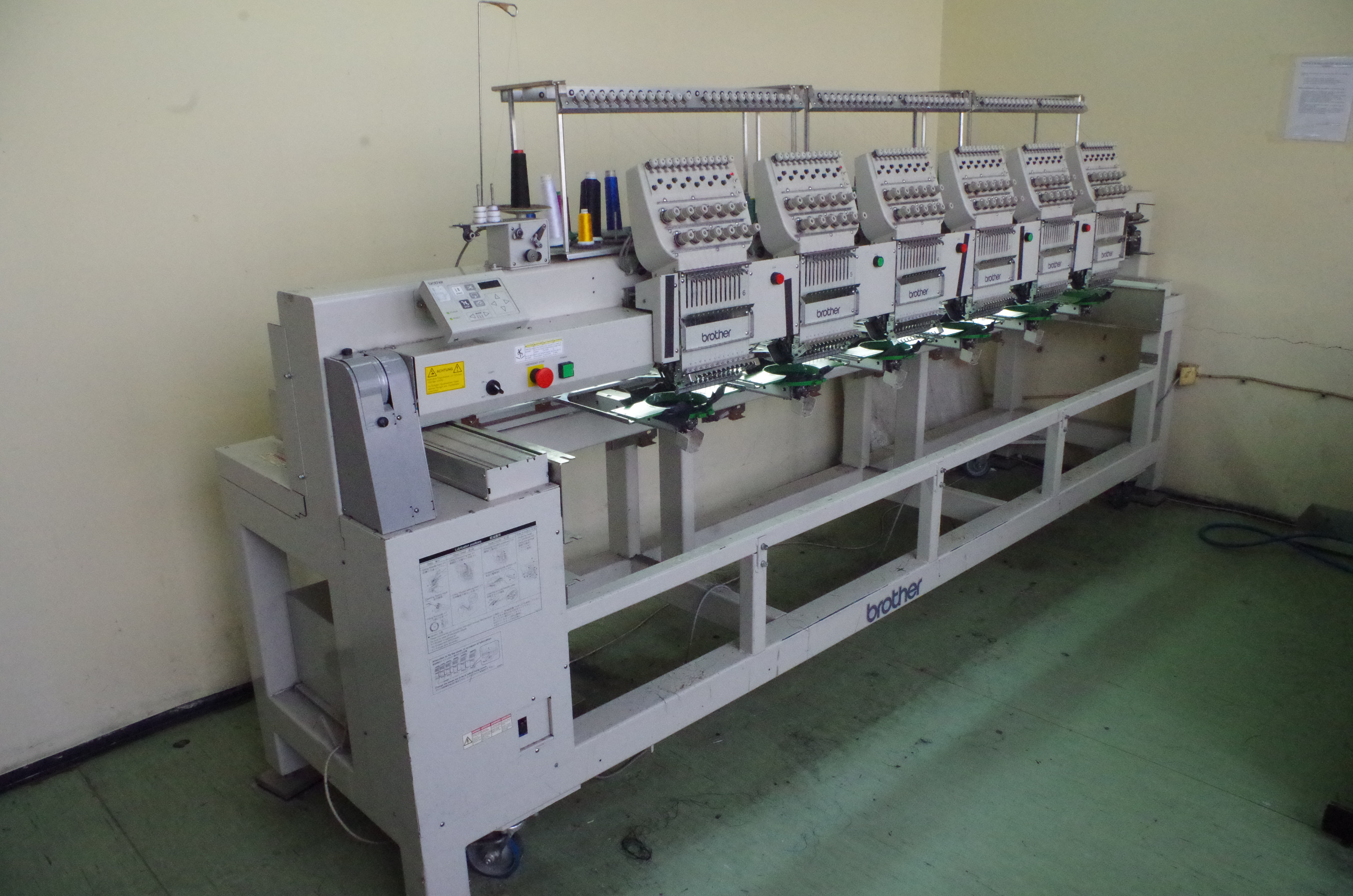 Textile Industry plant of the "Edinstvo" Factory in Strumica, Macedonia